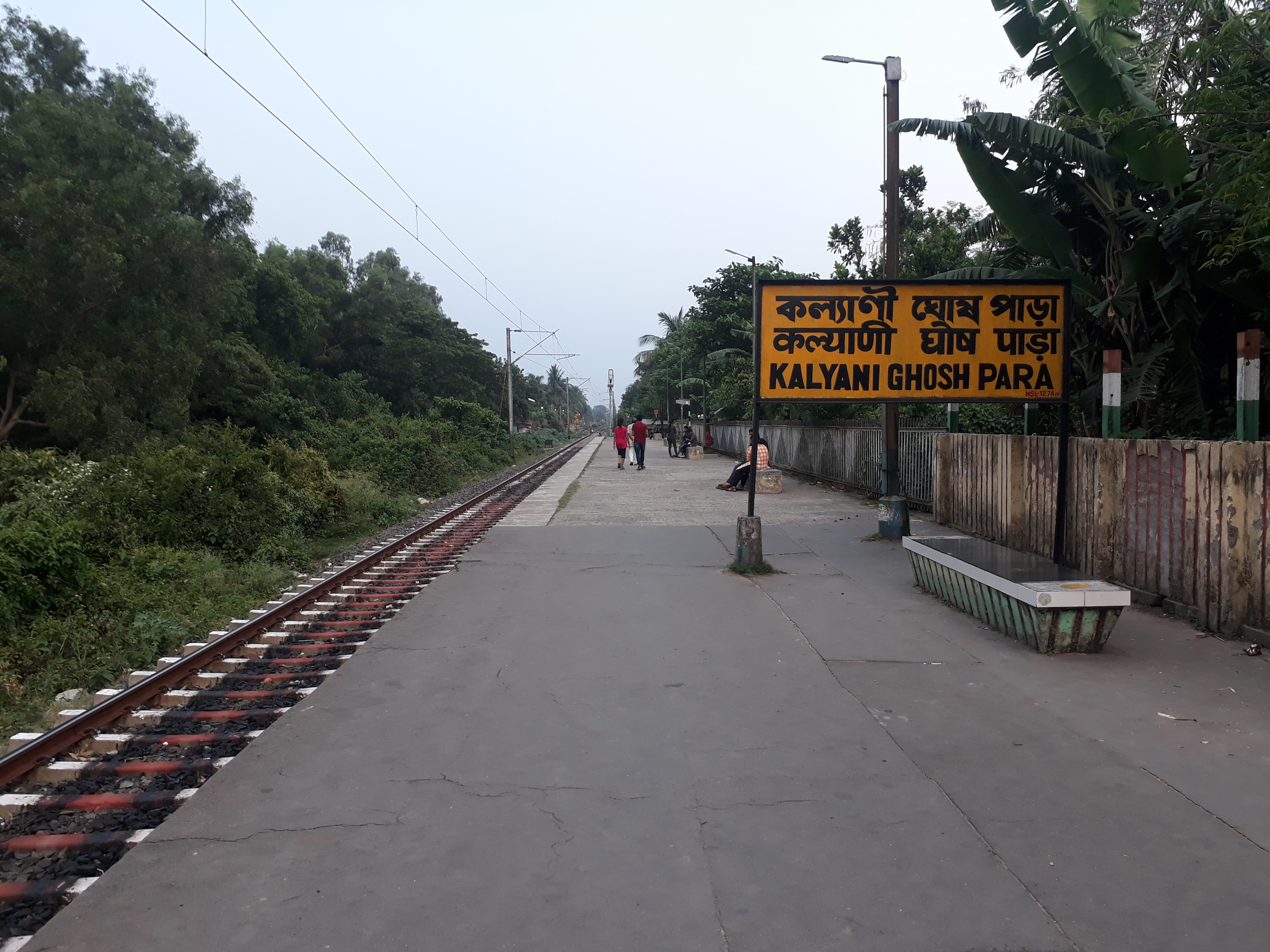 Kalyani Ghoshpara railway station in Kalyani Simanta Branch line at Kalyani, Nadia, West Bengal